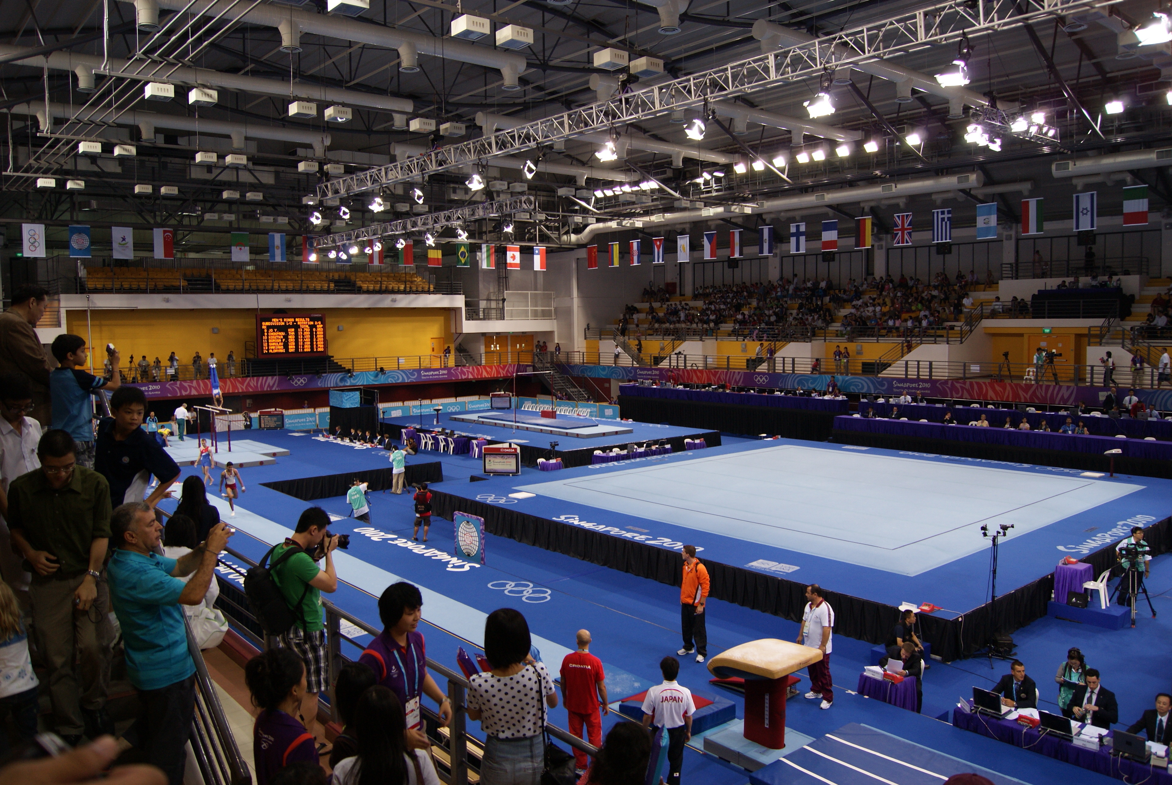 Bishan Sports Hall in Singapore during the Men's Qualification – Subdivision 1 event of the artistic gymnastics competition at the 2008 Summer Youth Olympics.